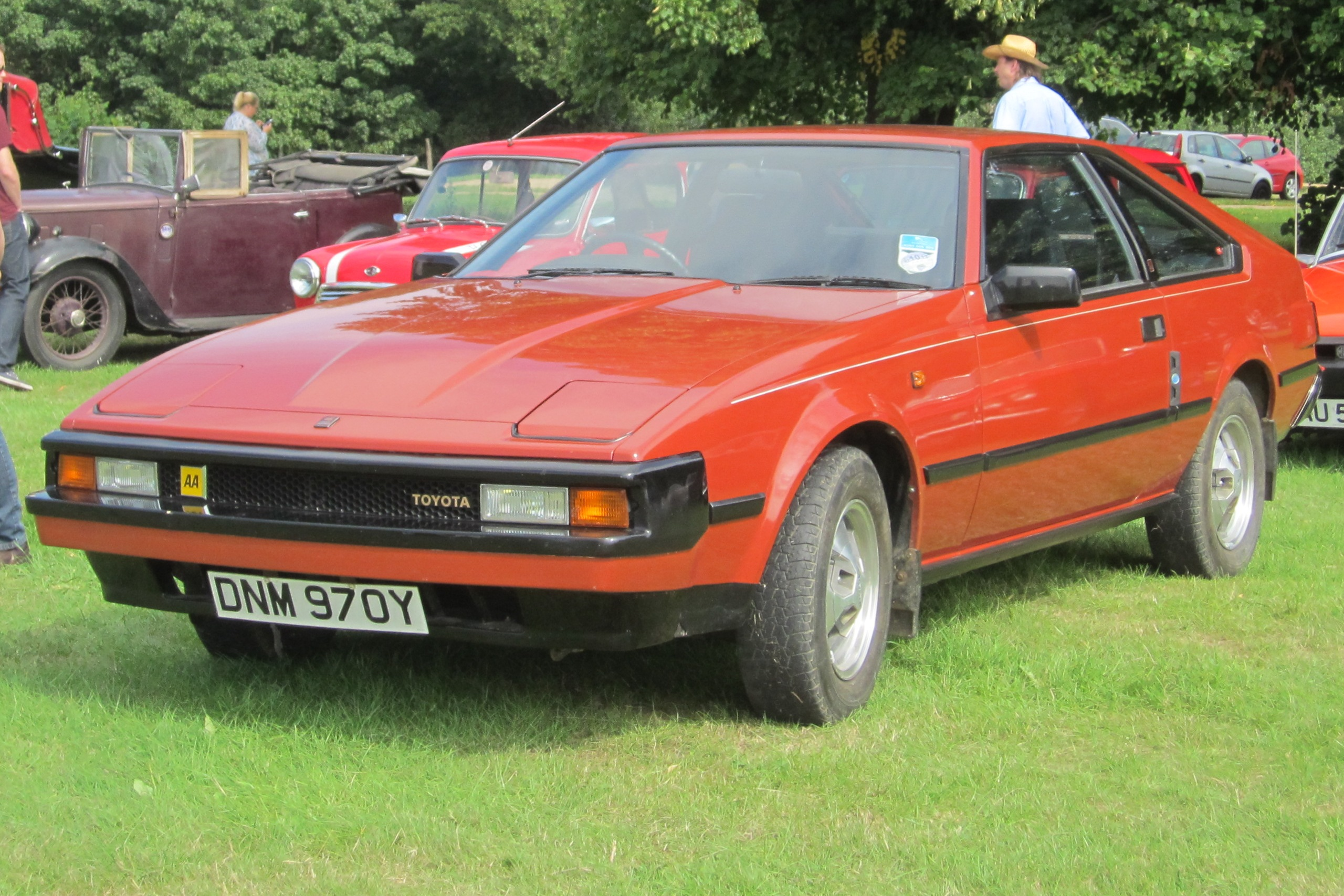 Toyota Supra A60 (1982)